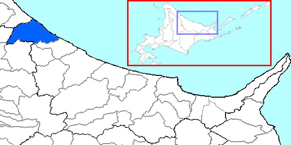 The location of Oumu in Abashiri Subprefecture, Hokkaido Prefecture, Japan.